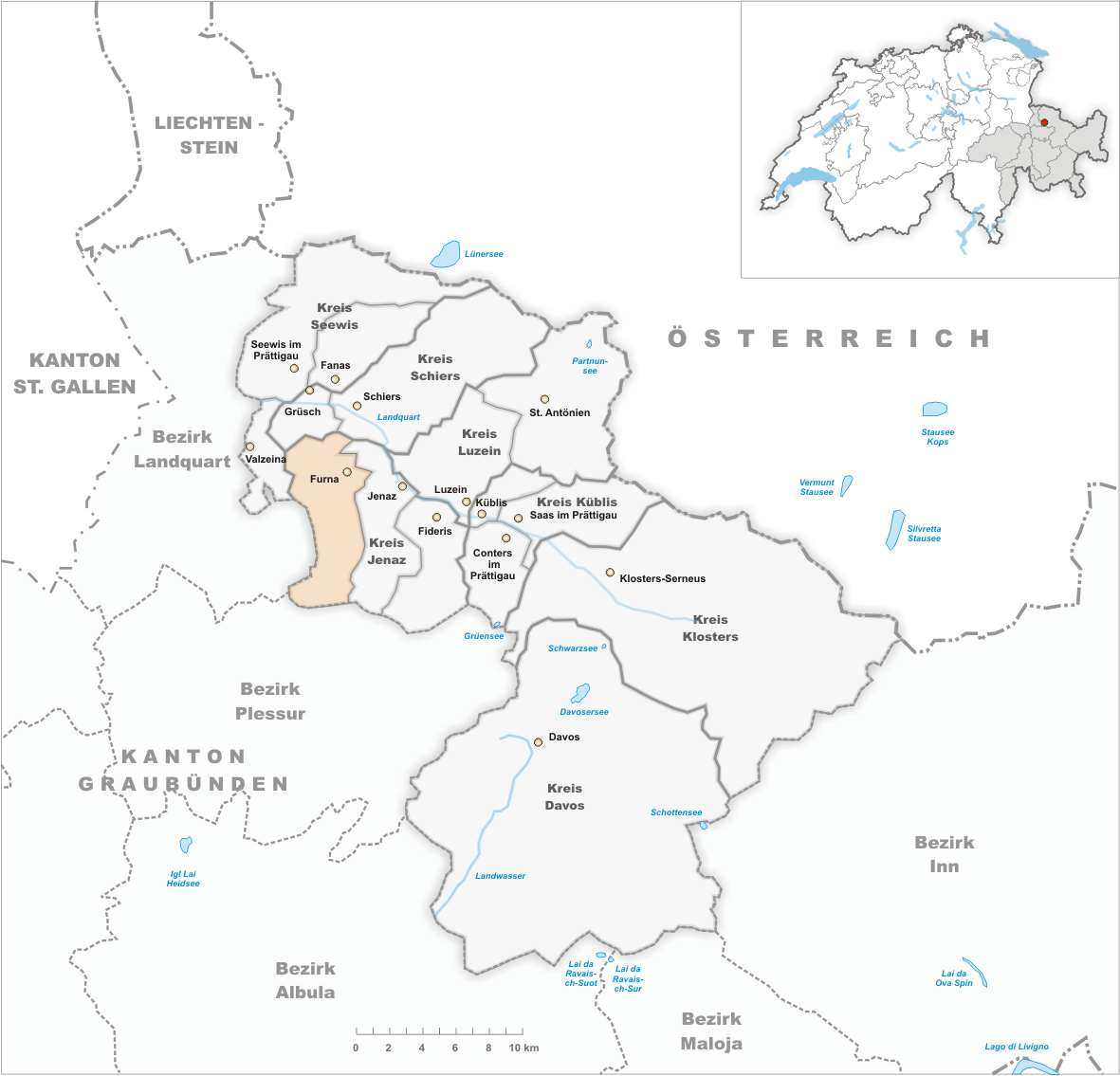 Municipality Furna